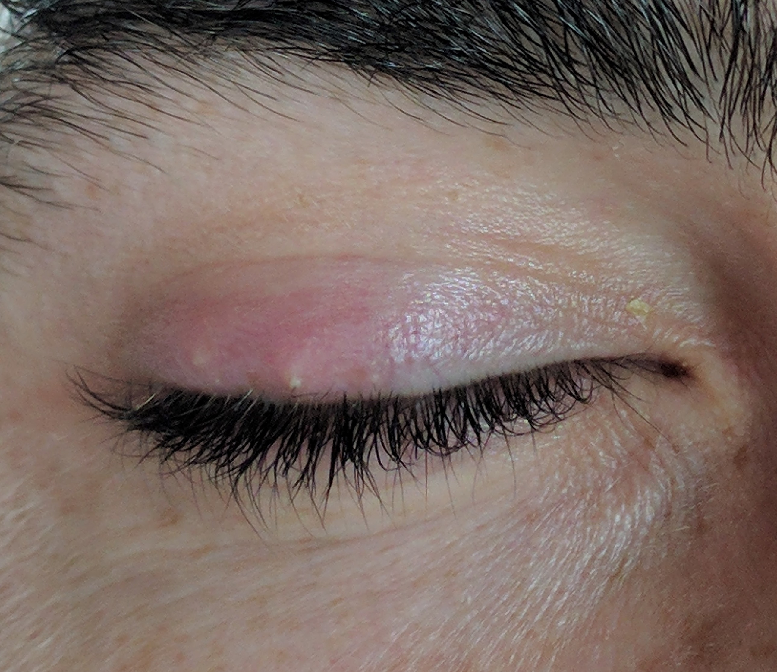 Stye of the upper eyelide